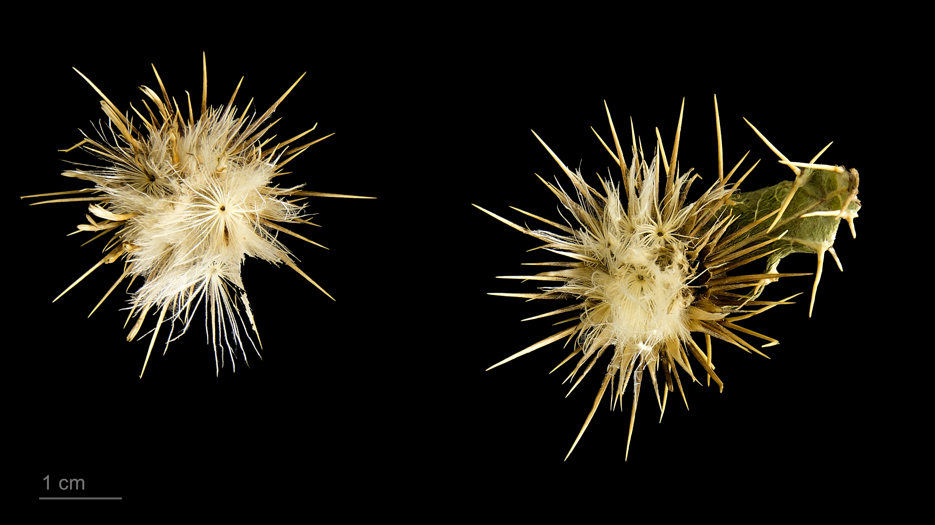 Ptilostemon casabonae, , seeds